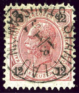 Austria KK 12 kr stamp bilingual cancelled in 1891 at STANISLAU - STANISLAWOW (Galicia, Ukraine)